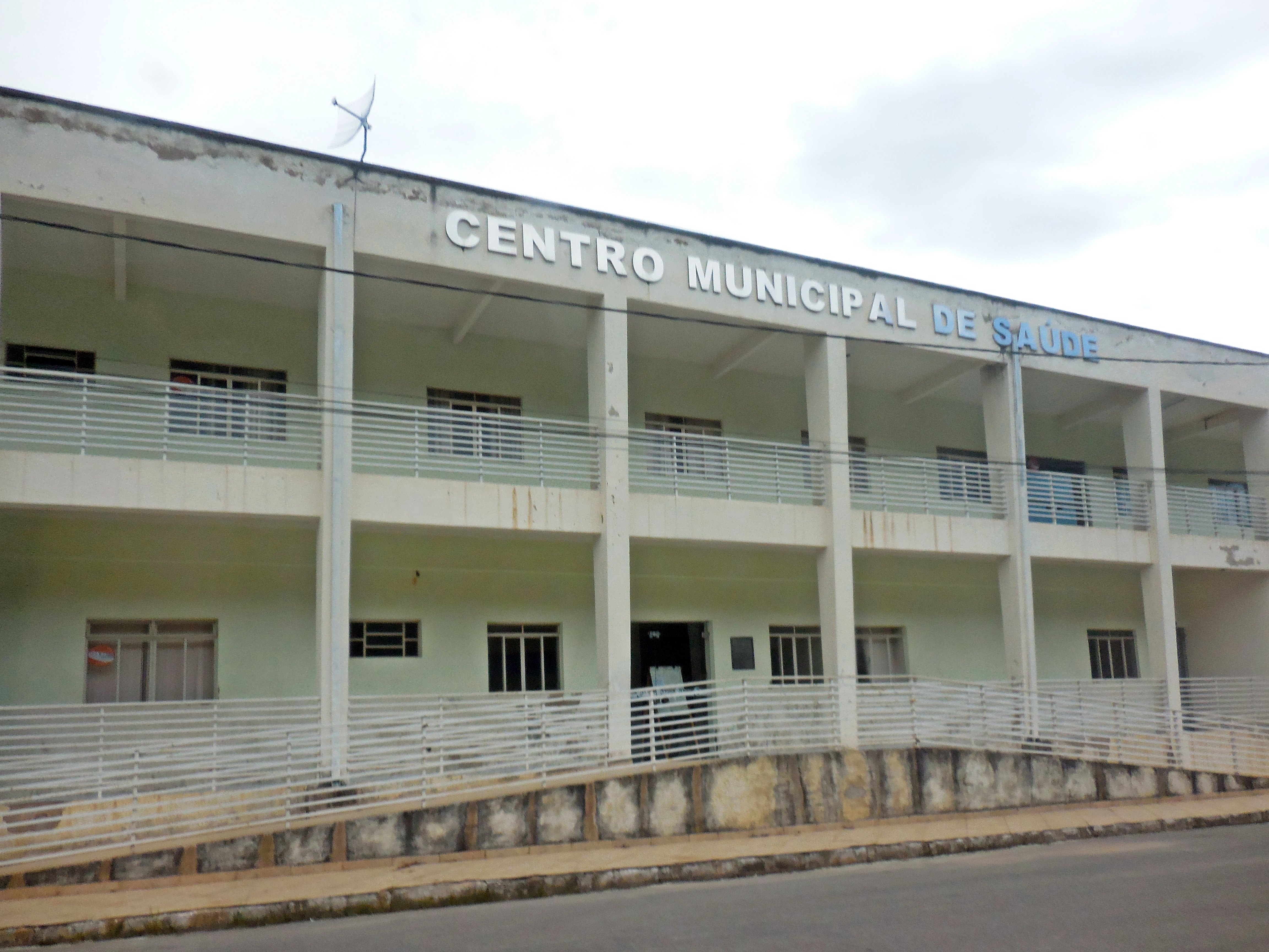 Facade of the municipal center of health of Marliéria, Minas Gerais, Brazil.